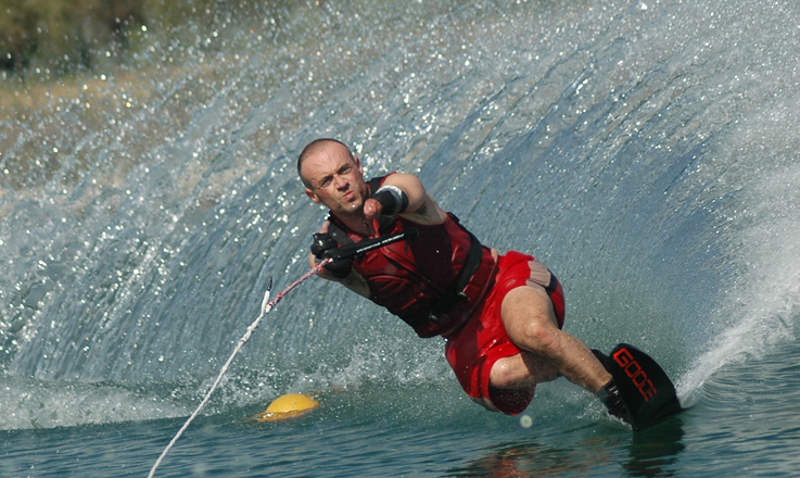 A powerful image of Giancarlo Cosio